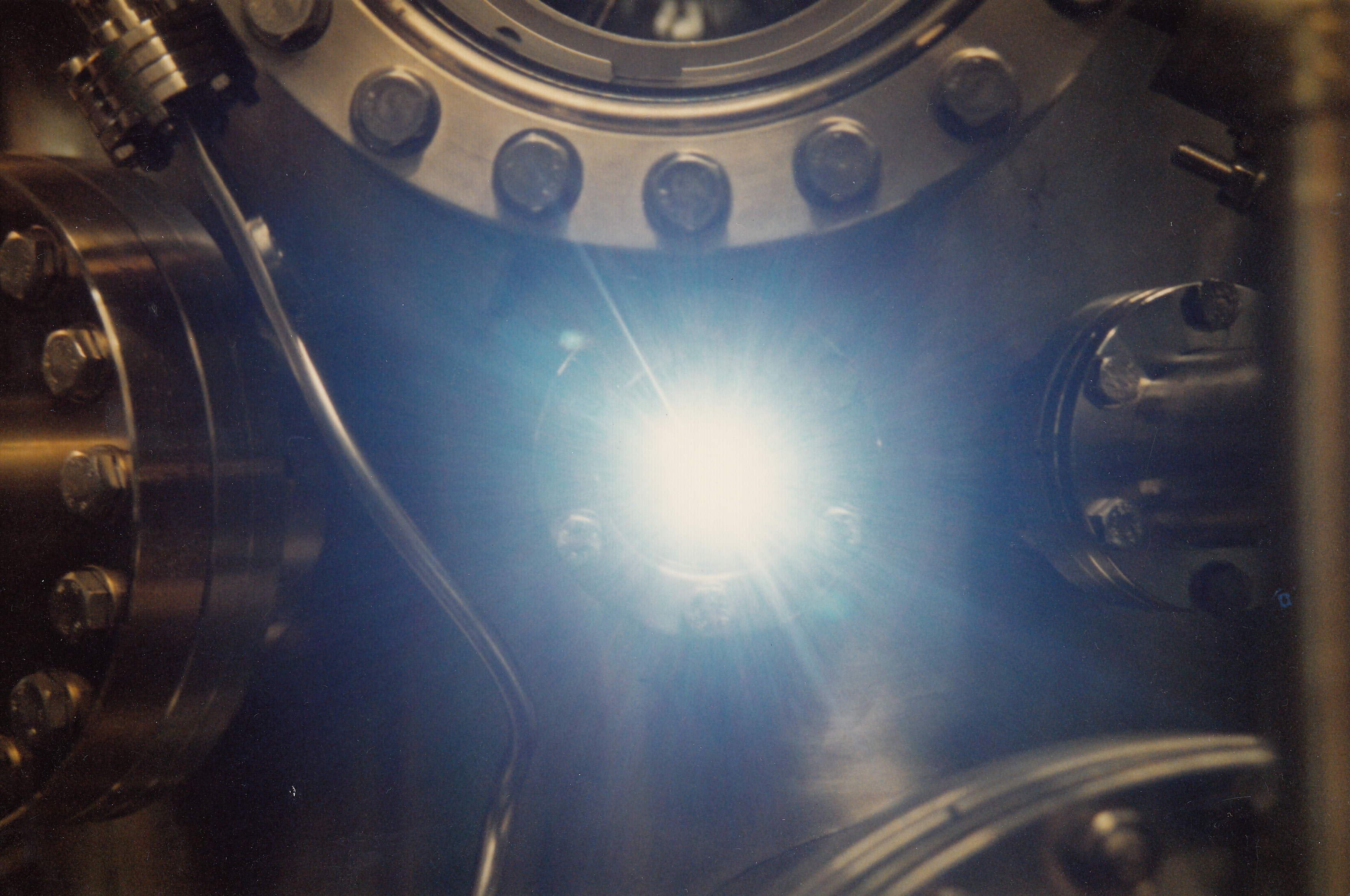 Synchrotron radiation reflecting from a terbium single crystal through a window in the angle-resolved photoemission endstation. TGM beamline at the Daresbury SRS, 1990